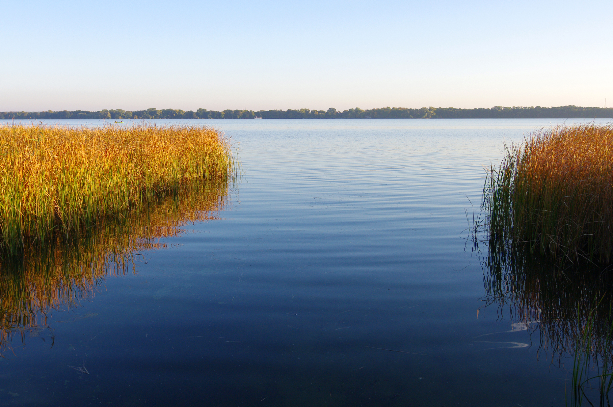 Lake Arendsee in northern Germany – a large water-filled sinkhole. View through the reeds at the northern bank.